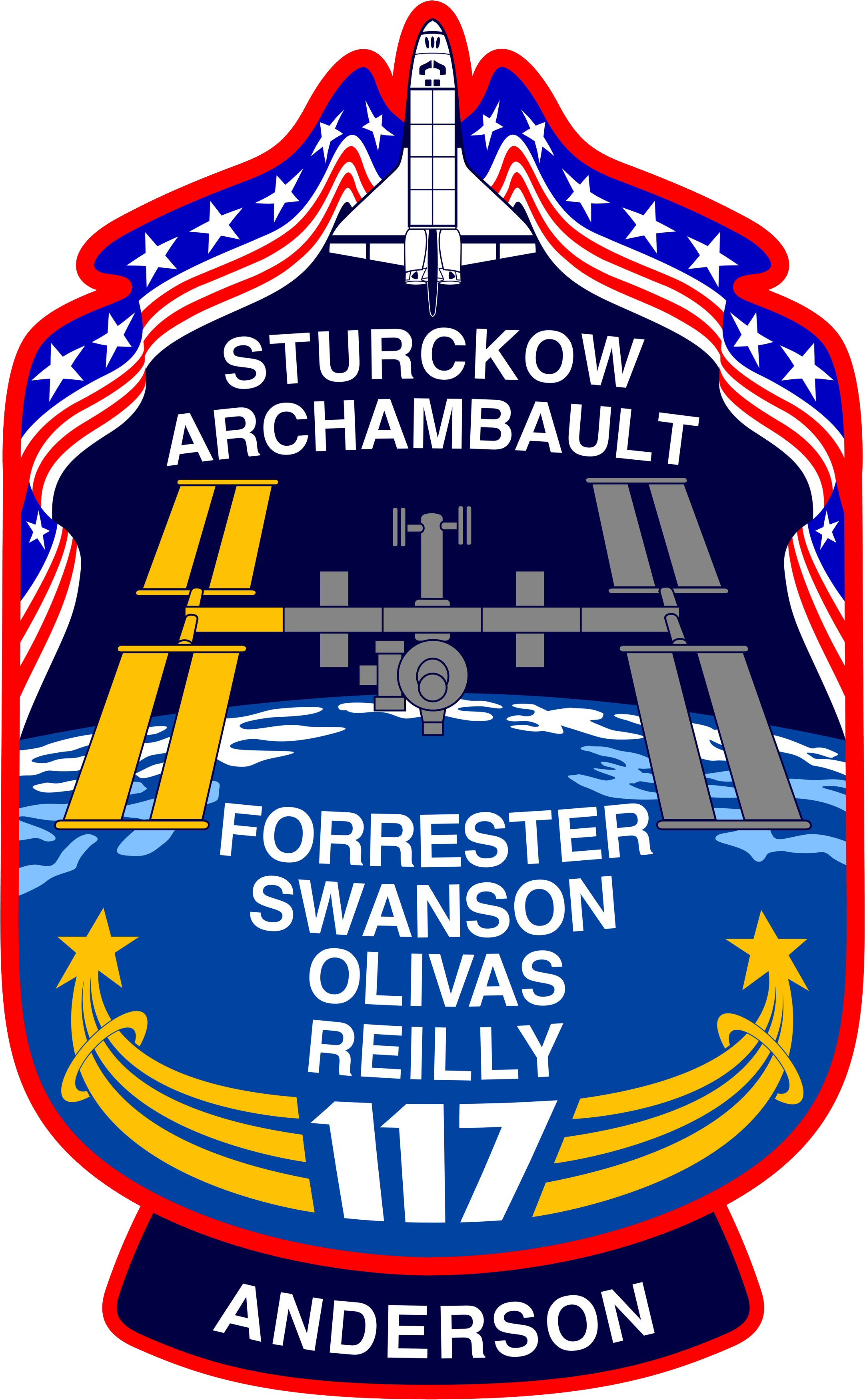 The STS-117 crew patch symbolizes the continued construction of the International Space Station (ISS) and our ongoing human presence in space. The ISS is shown orbiting high above the Earth. Gold is used to highlight the portion of the ISS that will be installed by the STS-117 crew. It consists of the second starboard truss section, S3/S4, and a set of solar arrays. The names of the STS-117 crew are located above and below the orbiting outpost. The two gold astronaut office symbols, emanating from the '117' at the bottom of the patch represent the concerted efforts of the shuttle and station programs toward the completion of the station. The orbiter and unfurled banner of red, white and blue represent our Nation's renewed patriotism as we continue to explore the universe